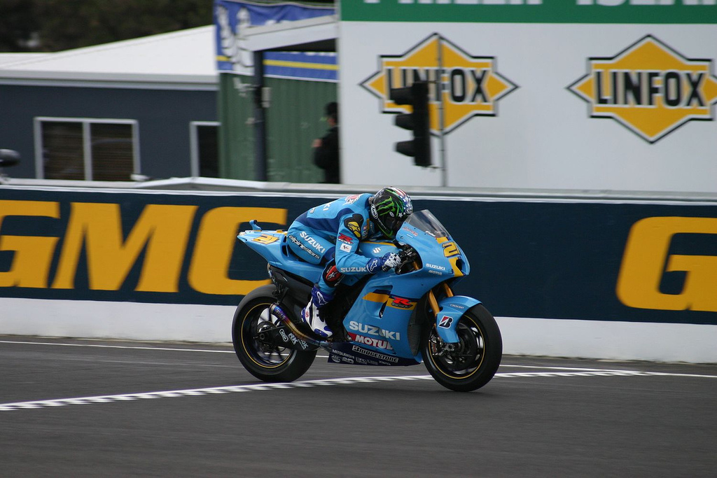 John Hopkins